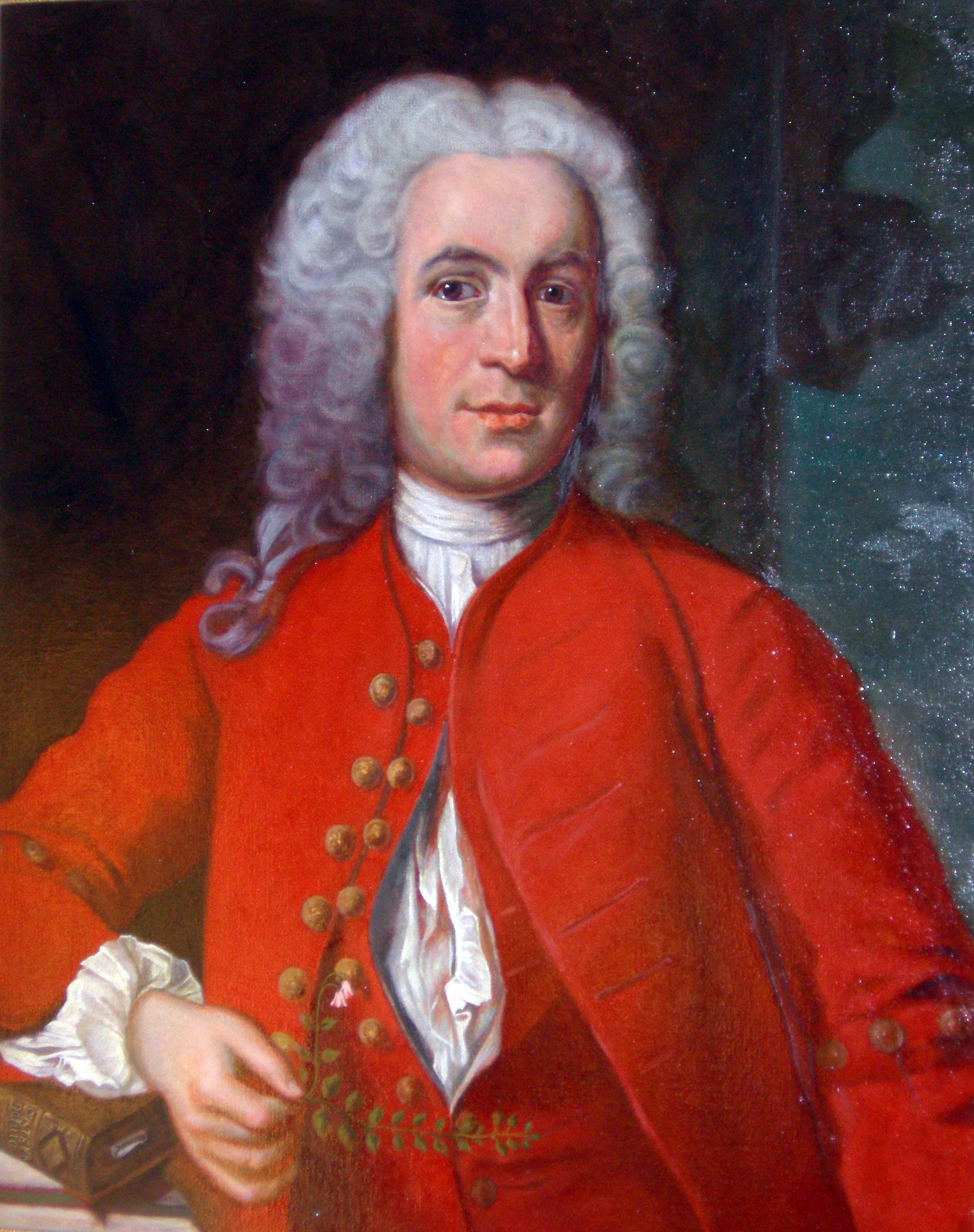 "The 32-year-old Linnaeus in his wedding finery. Oil painting by J. H. Scheffel, 1739."